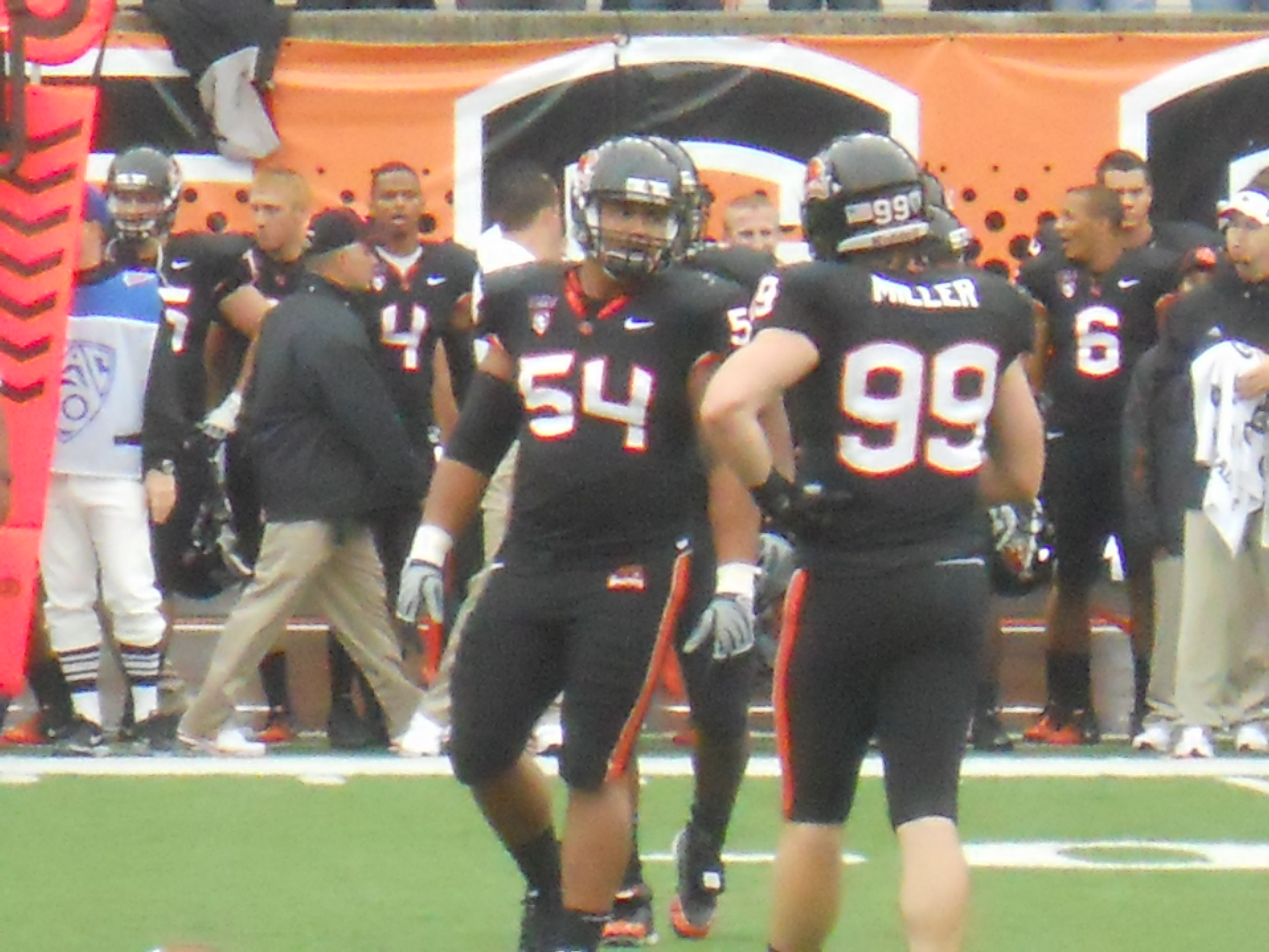 Stephen Paea in a game vs the Louisville Cardinals.